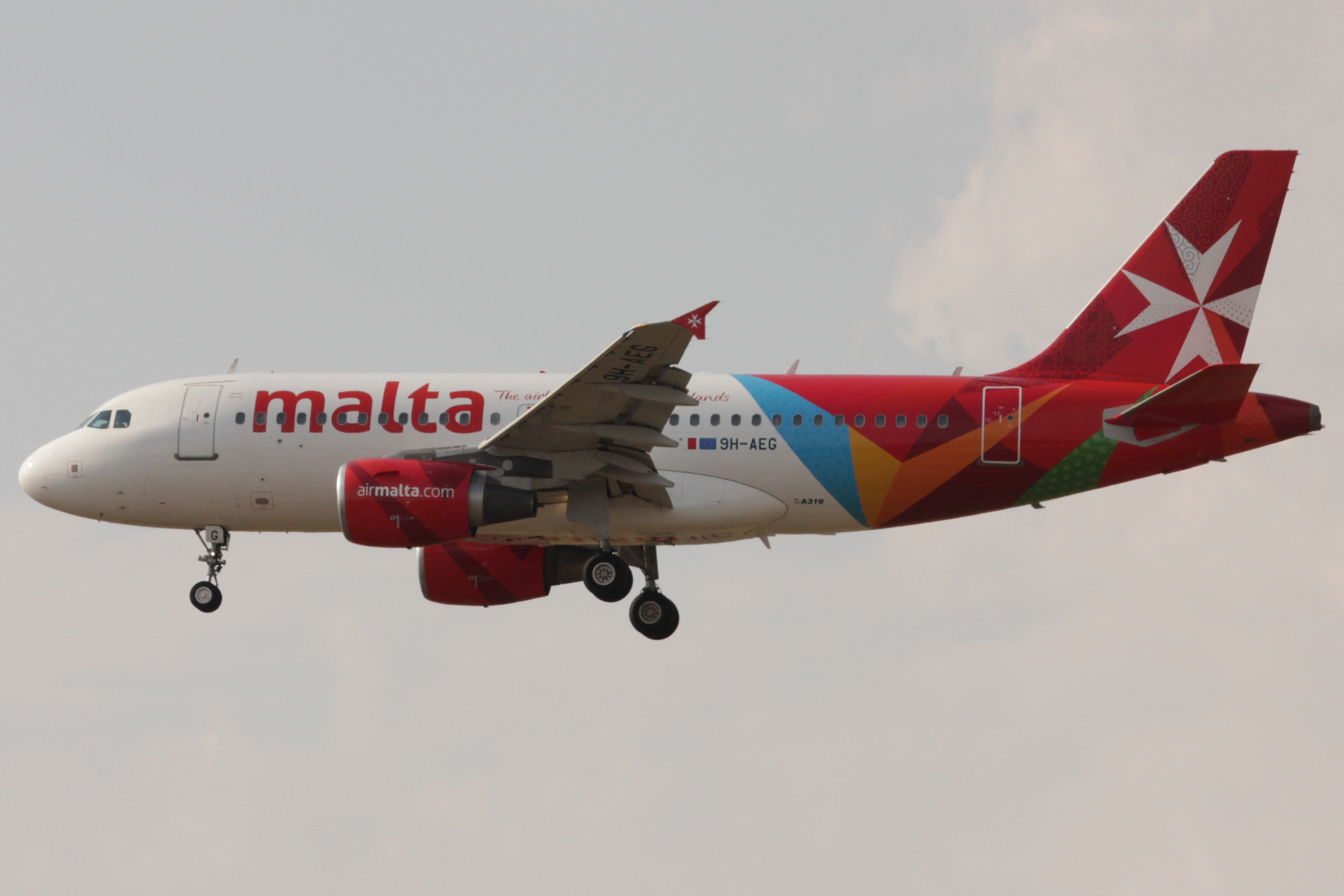 A319 of Air Malta in final approach to FRA